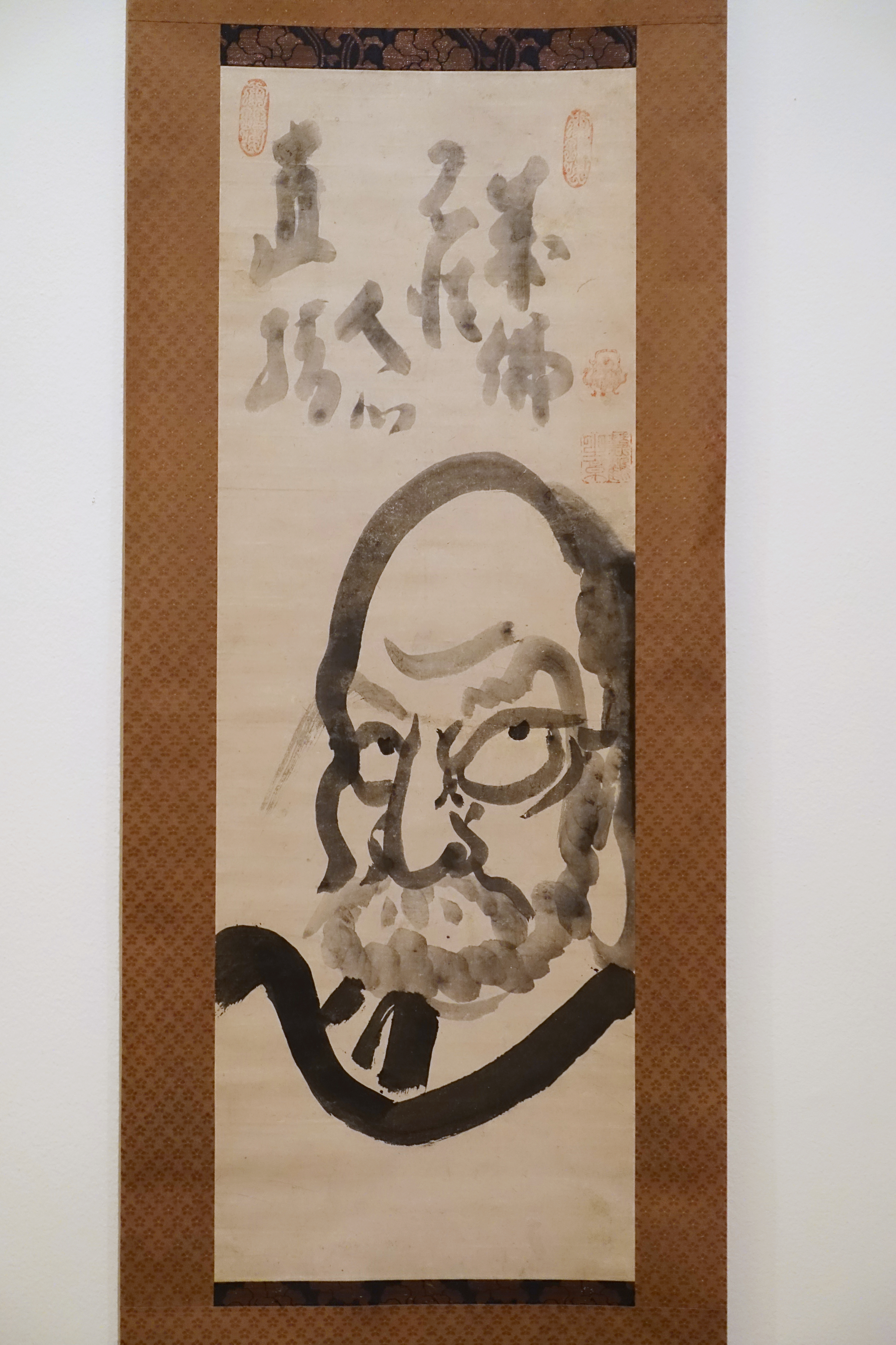 Exhibit in the Dallas Museum of Art, Dallas, Texas, USA.